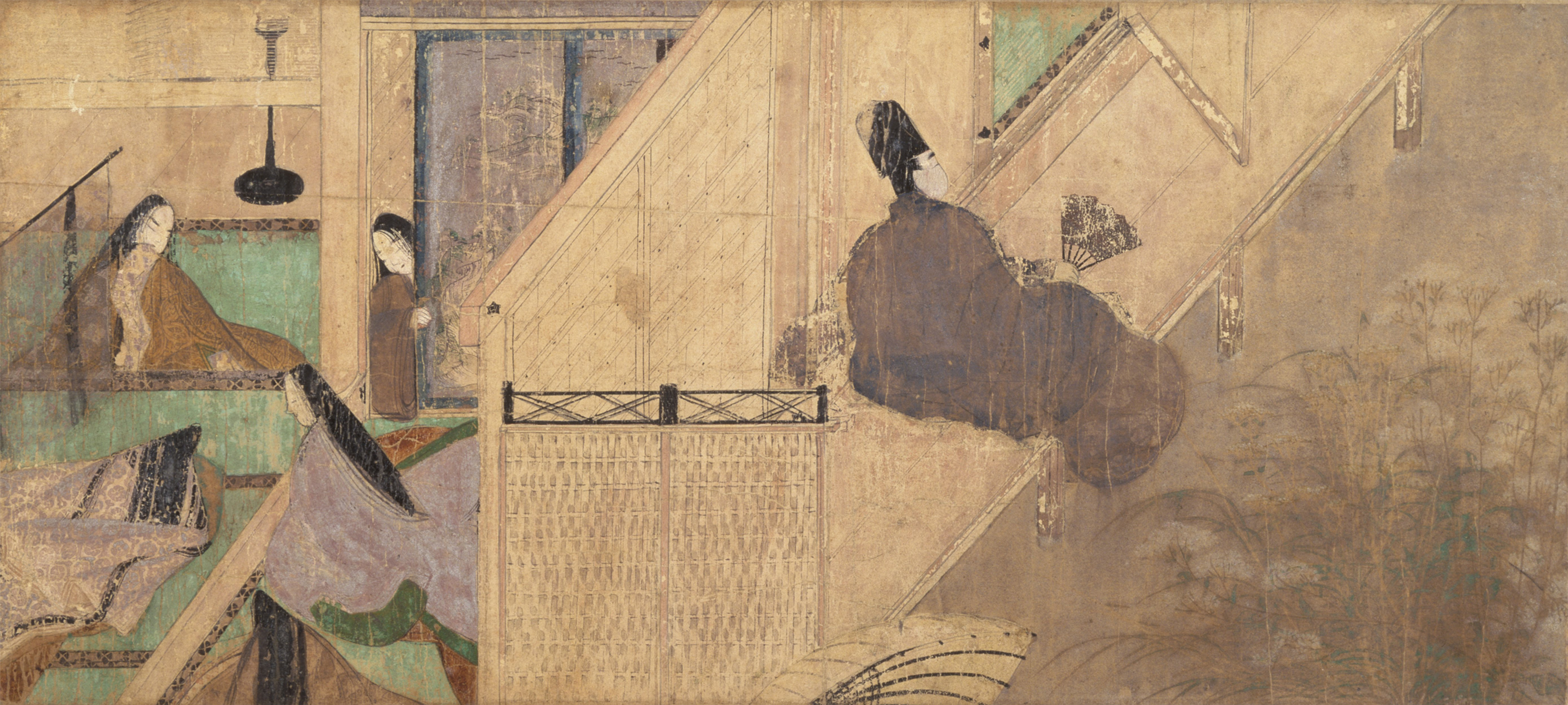 A scene (AZUMA YA: East Wing) of Illustrated scroll of Tale of Genji (written by MURASAKI SHIKIBU (11th cent.).